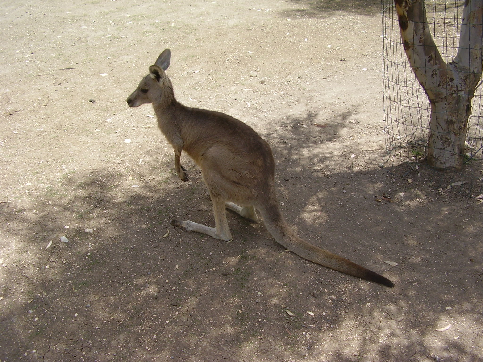 kangaroo in australia park (guru park), israel